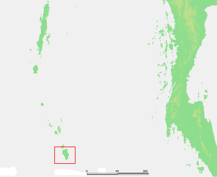 Andaman and Nicobar Islands